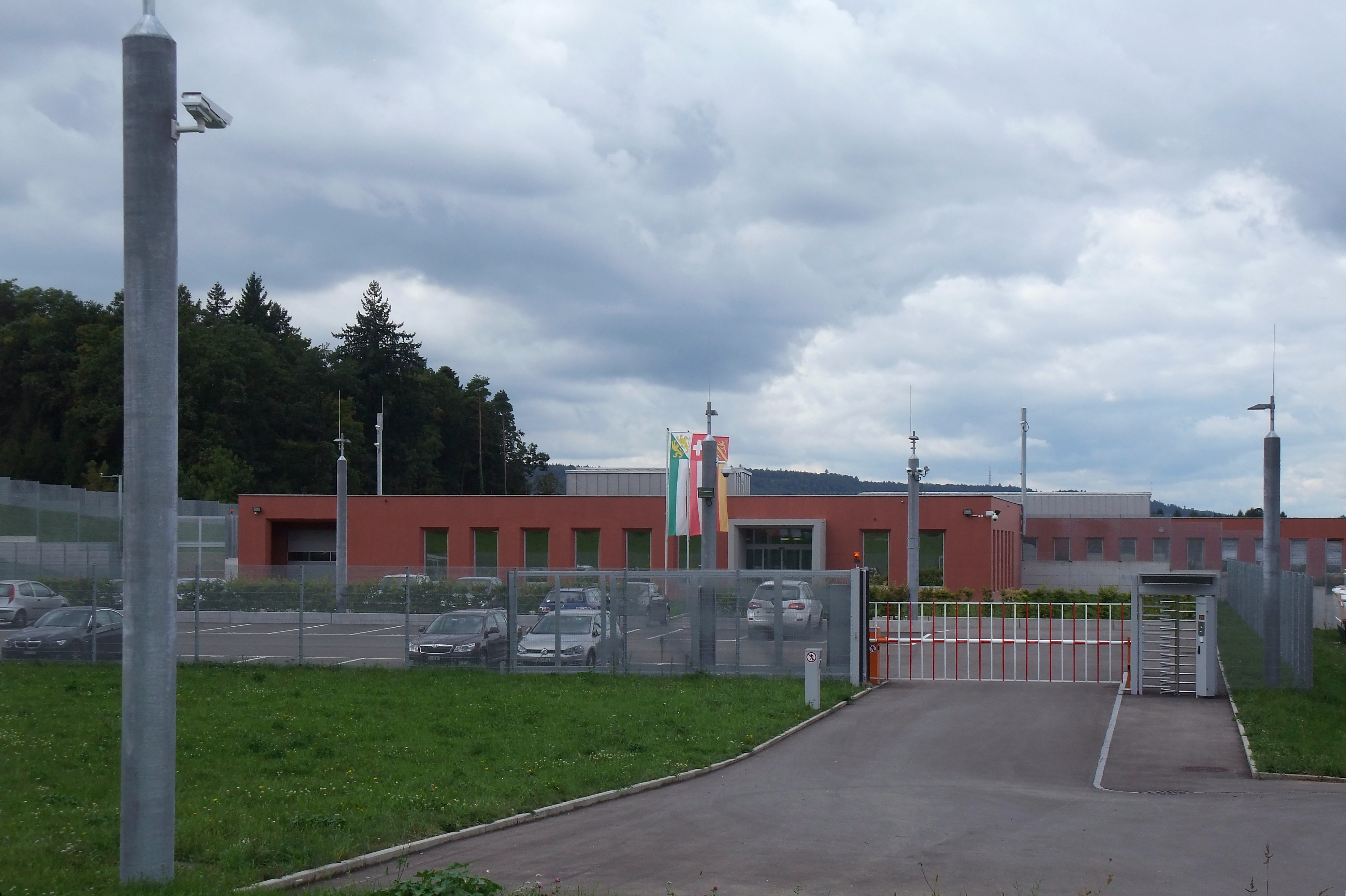 The electronic mail for the banks standardizes the communications of the financial institutions with each other. New operating center (OPC) in Diessenhofen, Switzerland, Sep 19, 2013.